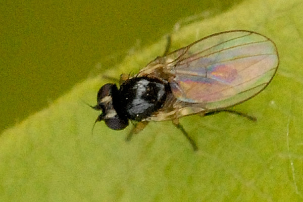 Hydrellia cardamines from Commanster, Belgian High Ardennes .